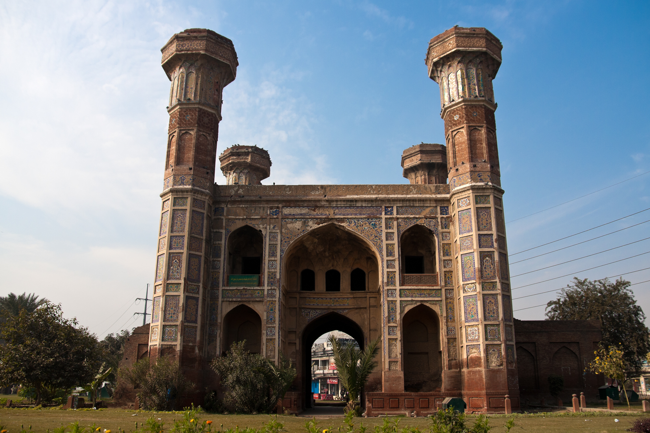 Chauburji This is a photo of a monument in Pakistan identified as the PB-46